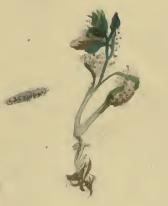 Stainton’s Natural History of the Tineina (1855–1873): Caryocolum marmorea a sprig of Cerastium vulgatum with sand-tubes formed by larva